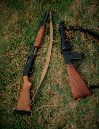 A 12 guage Mossberg 500 shotgun & 37mm Federal Riot Gun of the Bermuda Regiment in 1994. At Ferry Reach, Bermuda.